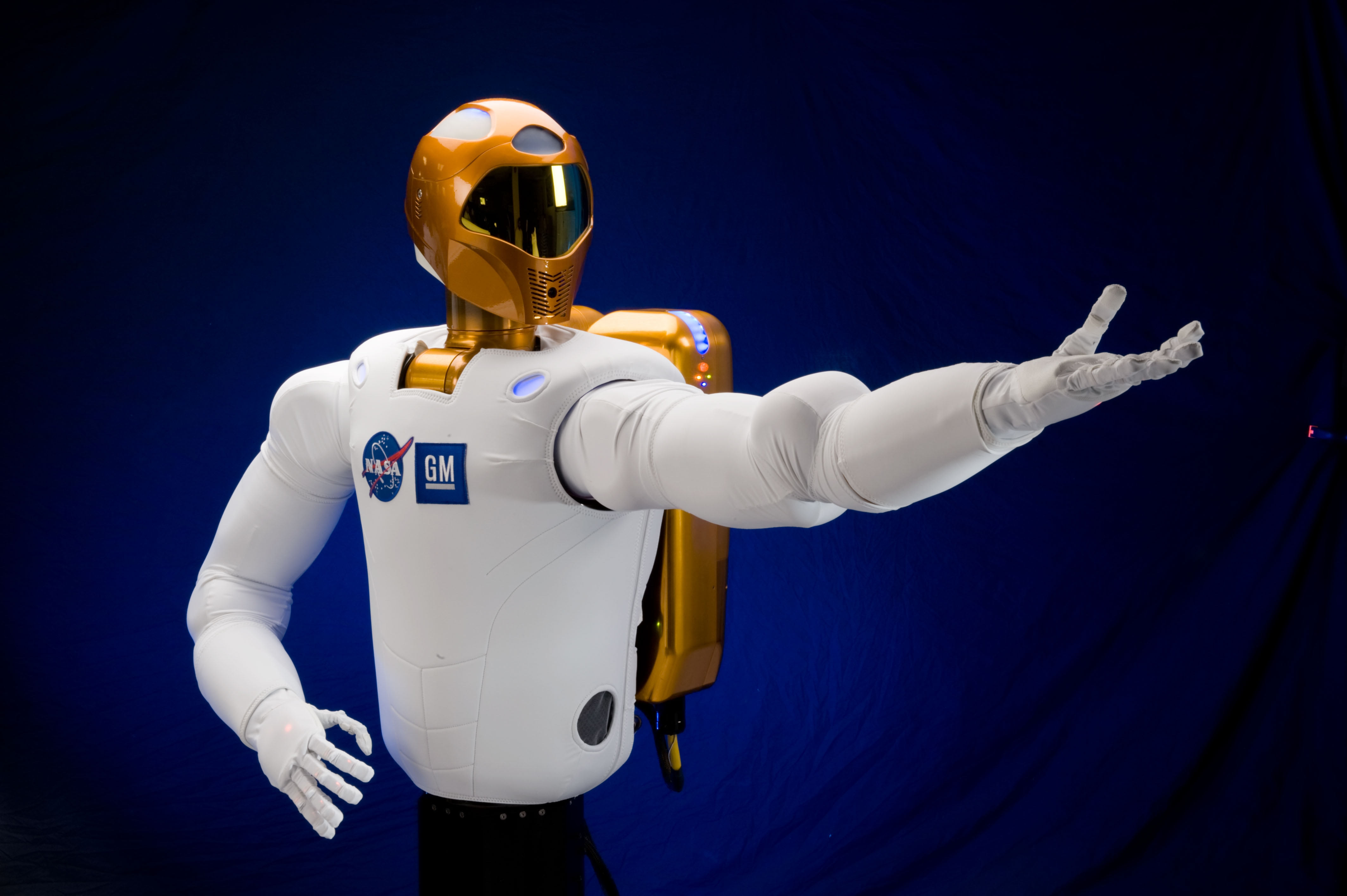 "JSC2009-E-155300 (28 July 2009) --- Robonaut2 – or R2 for short – is the next generation dexterous robot, developed through a Space Act Agreement by NASA and General Motors. It is faster, more dexterous and more technologically advanced than its predecessors and able to use its hands to do work beyond the scope of previously introduced humanoid robots."